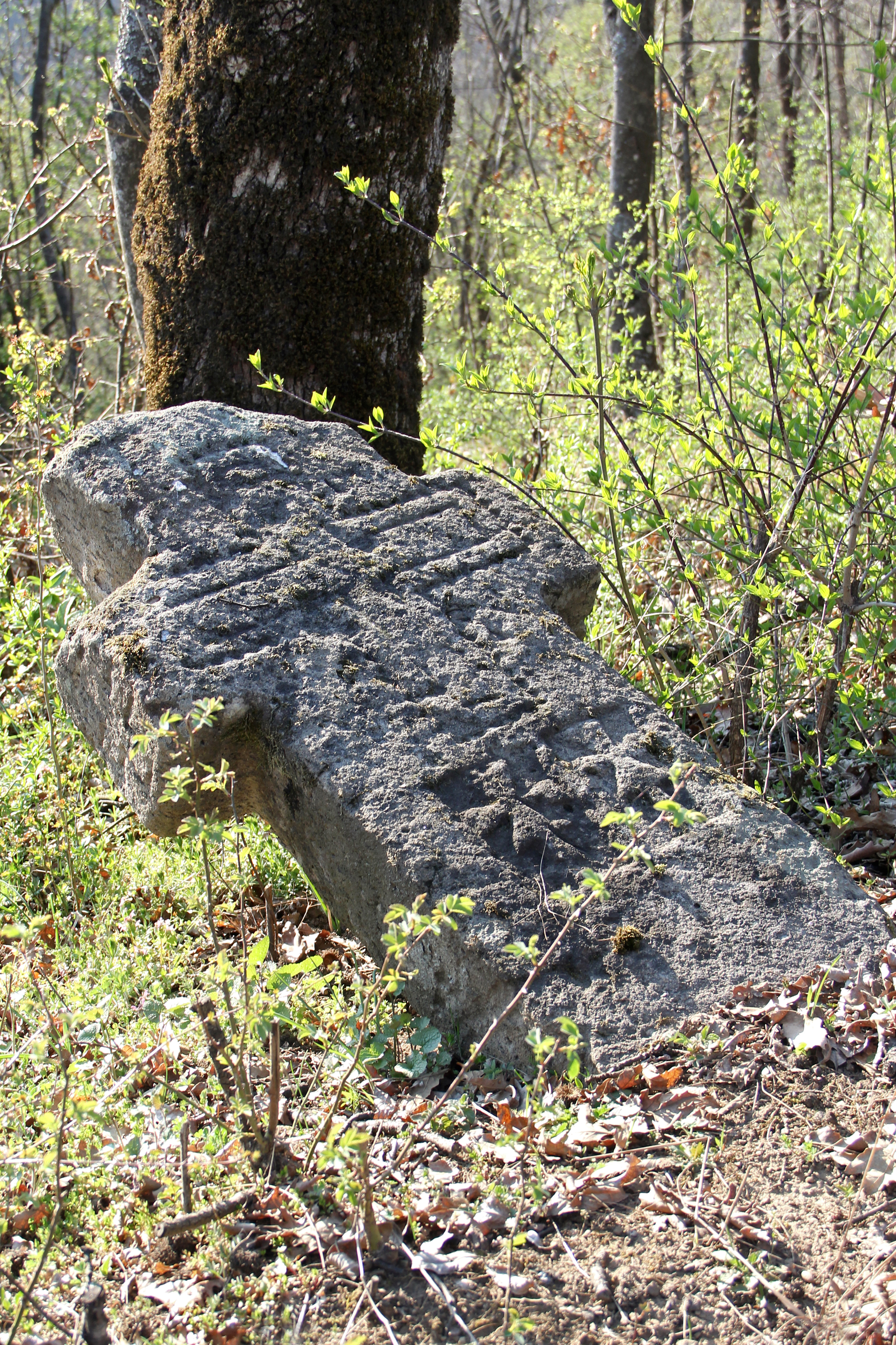 An old tombstone at the location of Tursko brdo in the village of Velerec (the municipality of Gornji Milanovac), Serbia.